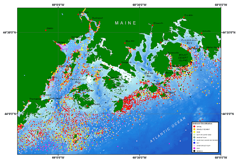 Map of Penobscot Bay